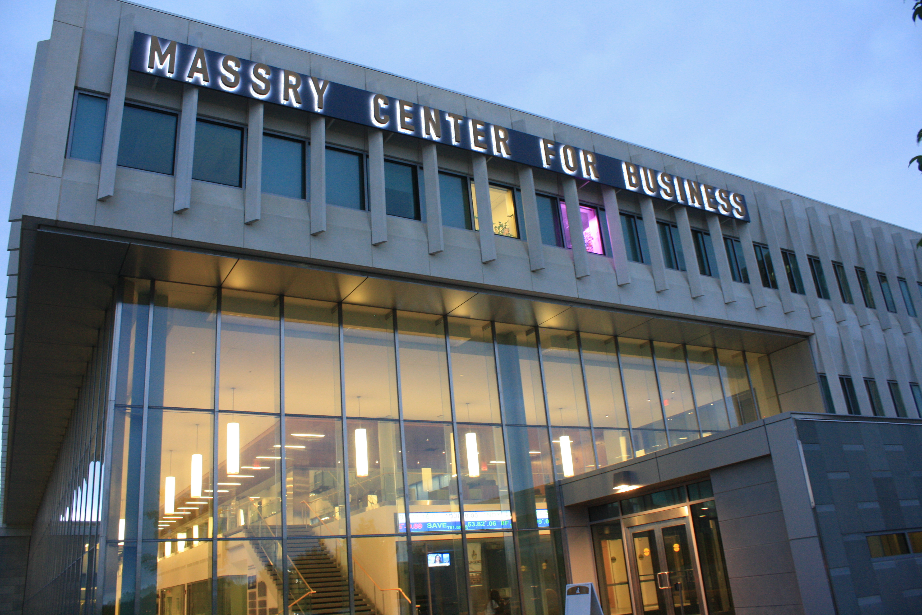 Massry Center for Business Building, University at Albany, Albany, New York